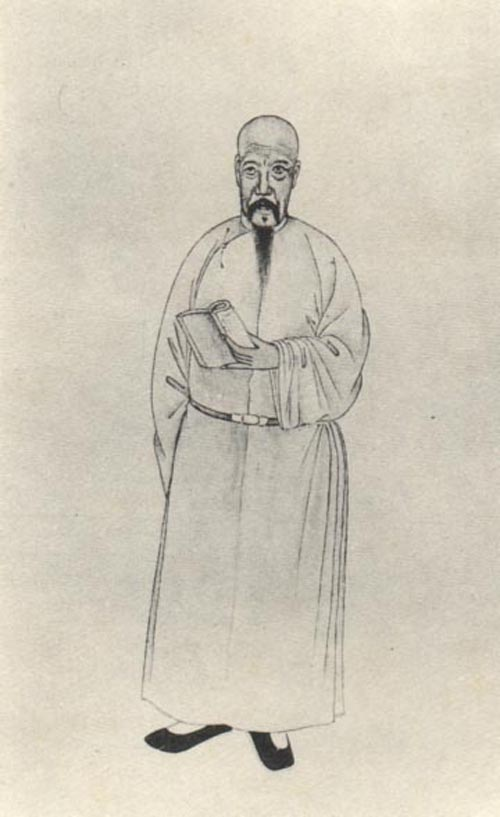 Xu Jiyu, scholar of the Qing Dynasty.